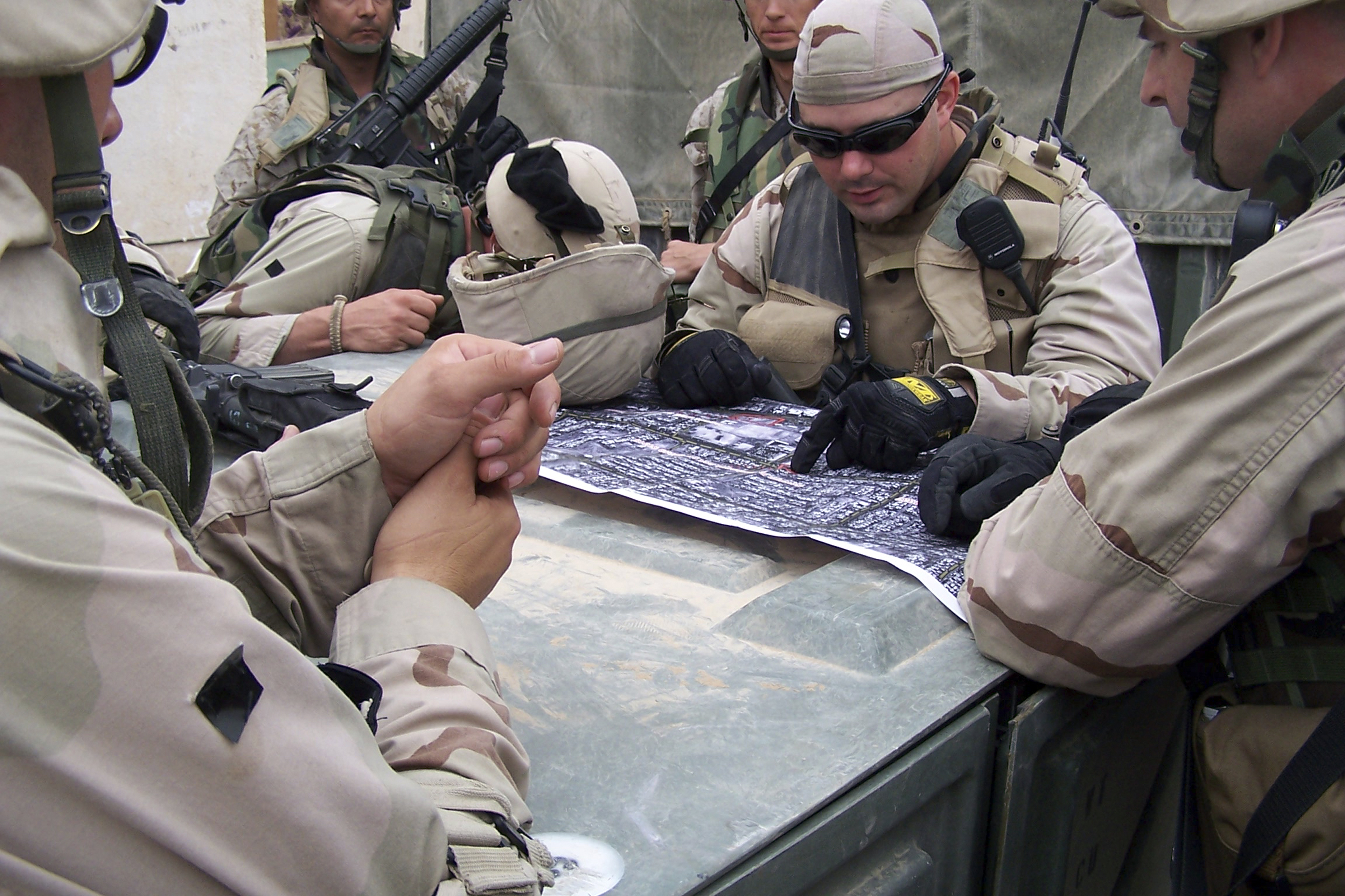 Fallujah, Iraq (Nov. 16, 2004) - Chief Engineering Aide Ardell Ball, center, assigned to Naval Mobile Construction battalion Four (NMCB-4), studies an aerial photograph of the streets in Fallujah, Iraq, as a Seabee-led damage assessment team prepares to survey the battle-scarred city during Operation Al Fajr (New Dawn). The team also included U.S. Navy Seabees assigned to the 1st Marine Expeditionary Force Engineer Group, NMCB-23, and soldiers from the U.S. Army Bravo 445 Civil Affairs team. U.S. Navy photograph by Chief Journalist Suzanne M. Speight (RELEASED)